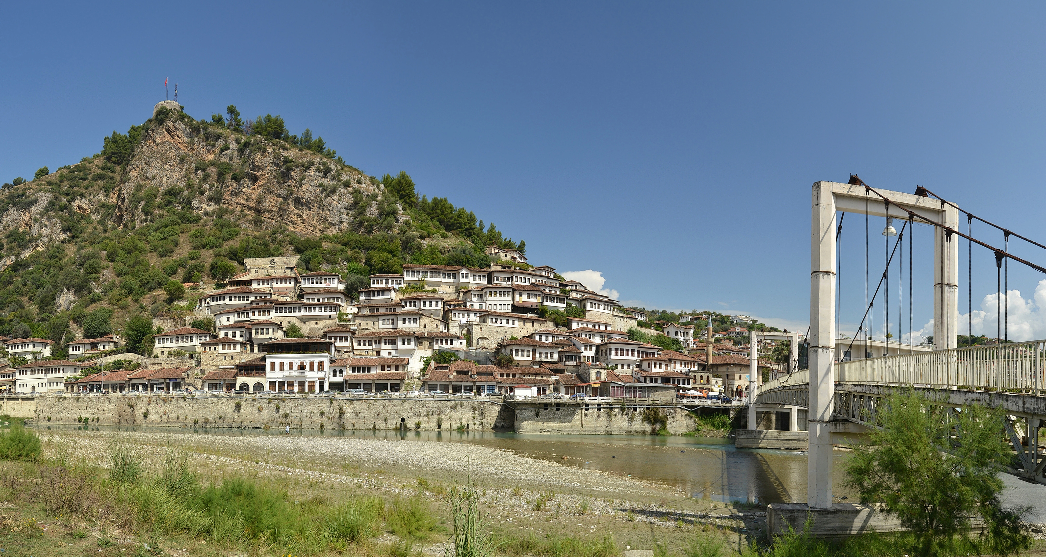 Berat, Albania